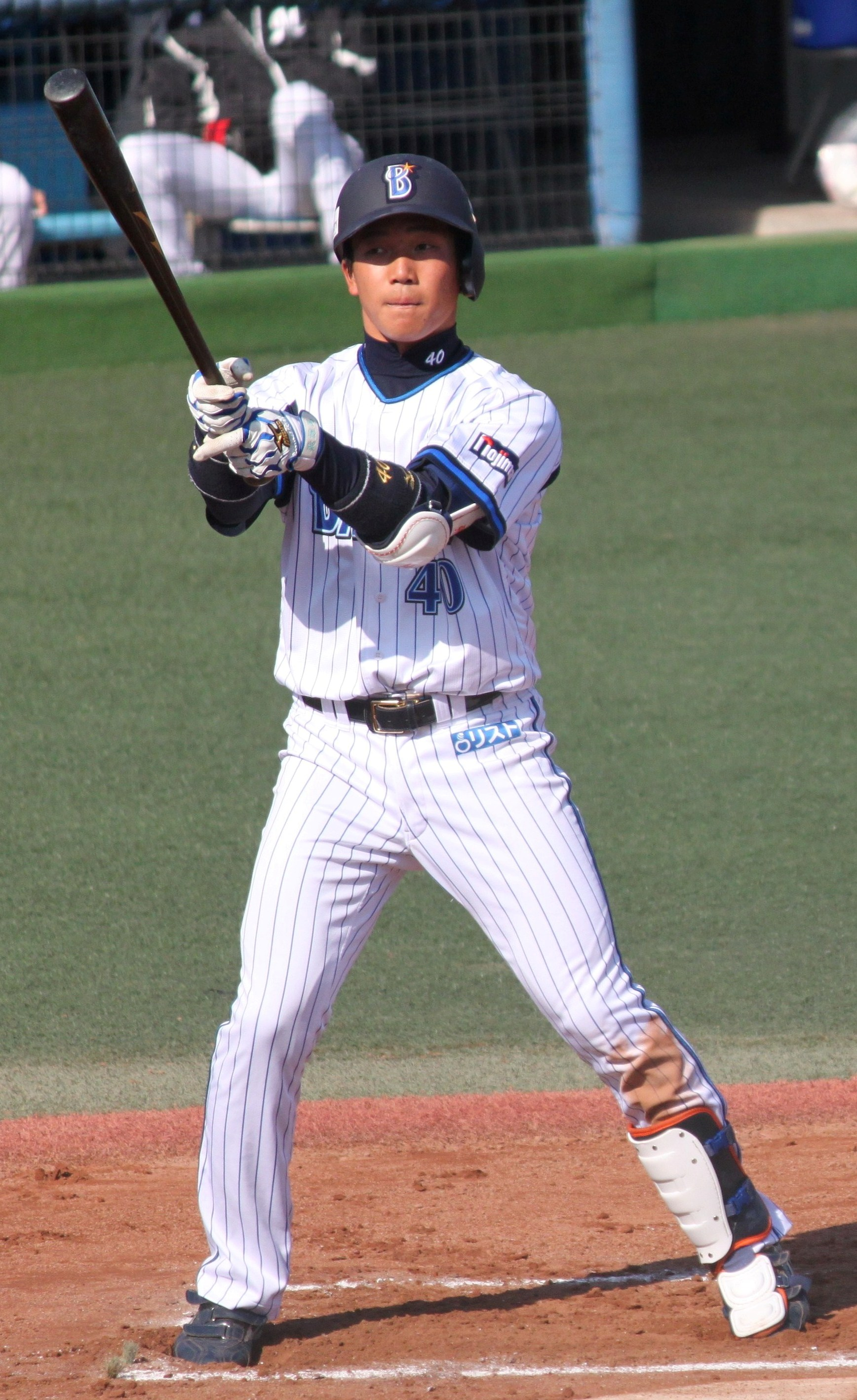 Hyuma Matsui, infielder of the Yokohama DeNA BayStars, at Yokosuka Stadium.